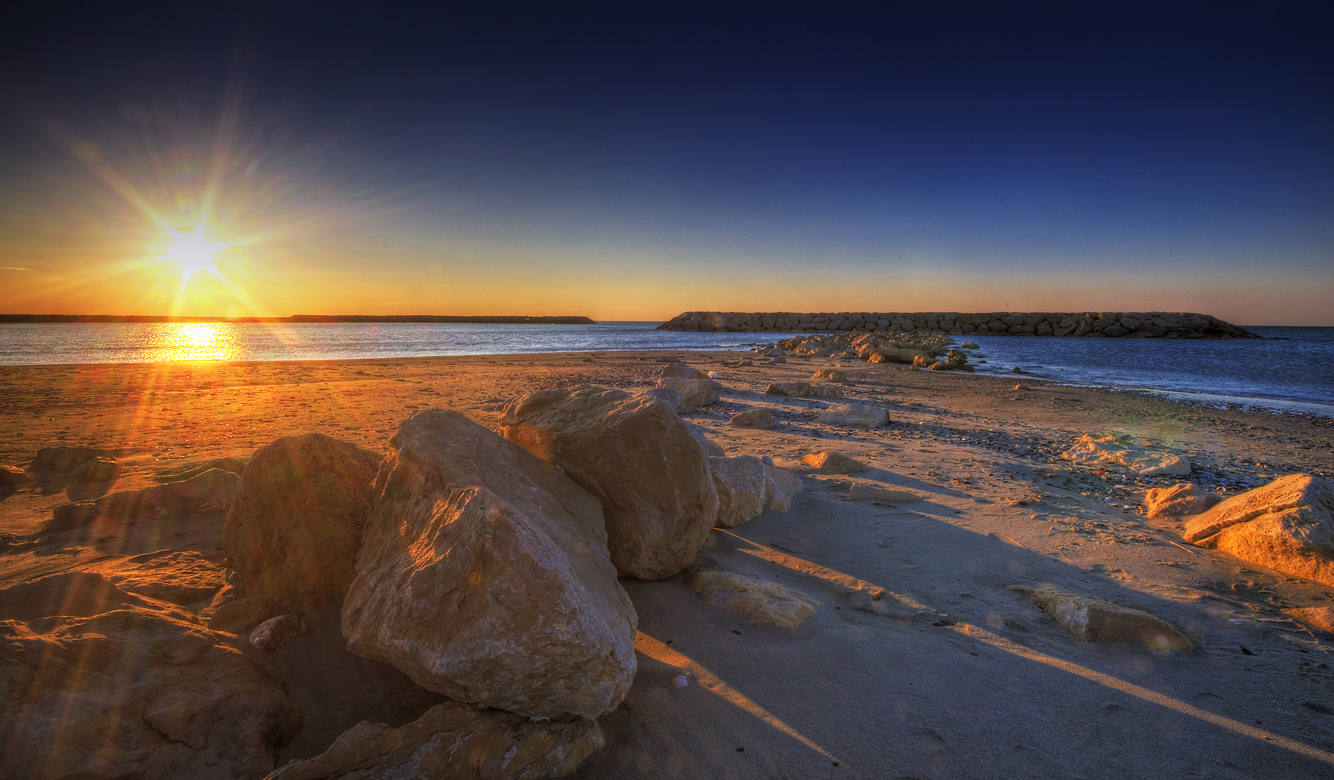 Saintes-Maries-de-la-Mer (Bouches-du-Rhône, Provence-Alpes-Côte d'Azur, France) : Sunrise at the beach.